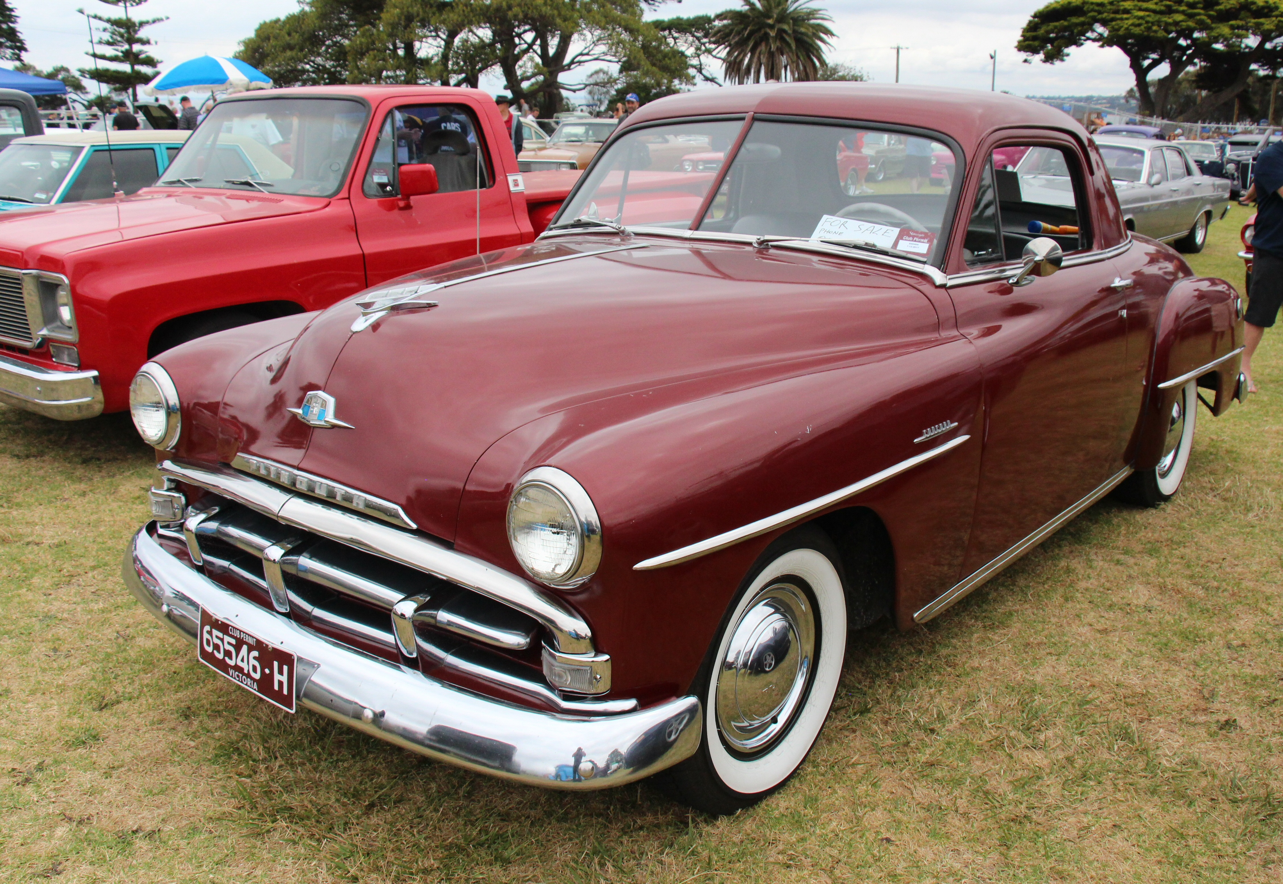 In 1928, Chrysler acquired Fargo Trucks and Dodge Brothers and also established Plymouth and DeSoto brands. Plymouth was Chryslers lowest priced car, Dodge was next, then Desoto and Chrysler was top of the line. Plymouth introduced new names for their models in 1951. The base model was the Concord (2 door Coupe, 2 door Sedan and 2 door Suburban Wagon) The mid spec model was the Cambridge (2 door Coupe and 4 door Sedan) The top model was the Cranbrook, replacing the Special Deluxe (4 door Sedan, 2 door Coupe, 2 door Convertible and the 2 door pillarless hardtop, the Cranbrook Belvedere). From 1951-52, they were referred to as the P-23 Series. The Cranbrook 4 door sedan was also built in Australia from 1951-57, Australian design input was minimal, although major body panels were locally produced. Engine; 218 cu in 6